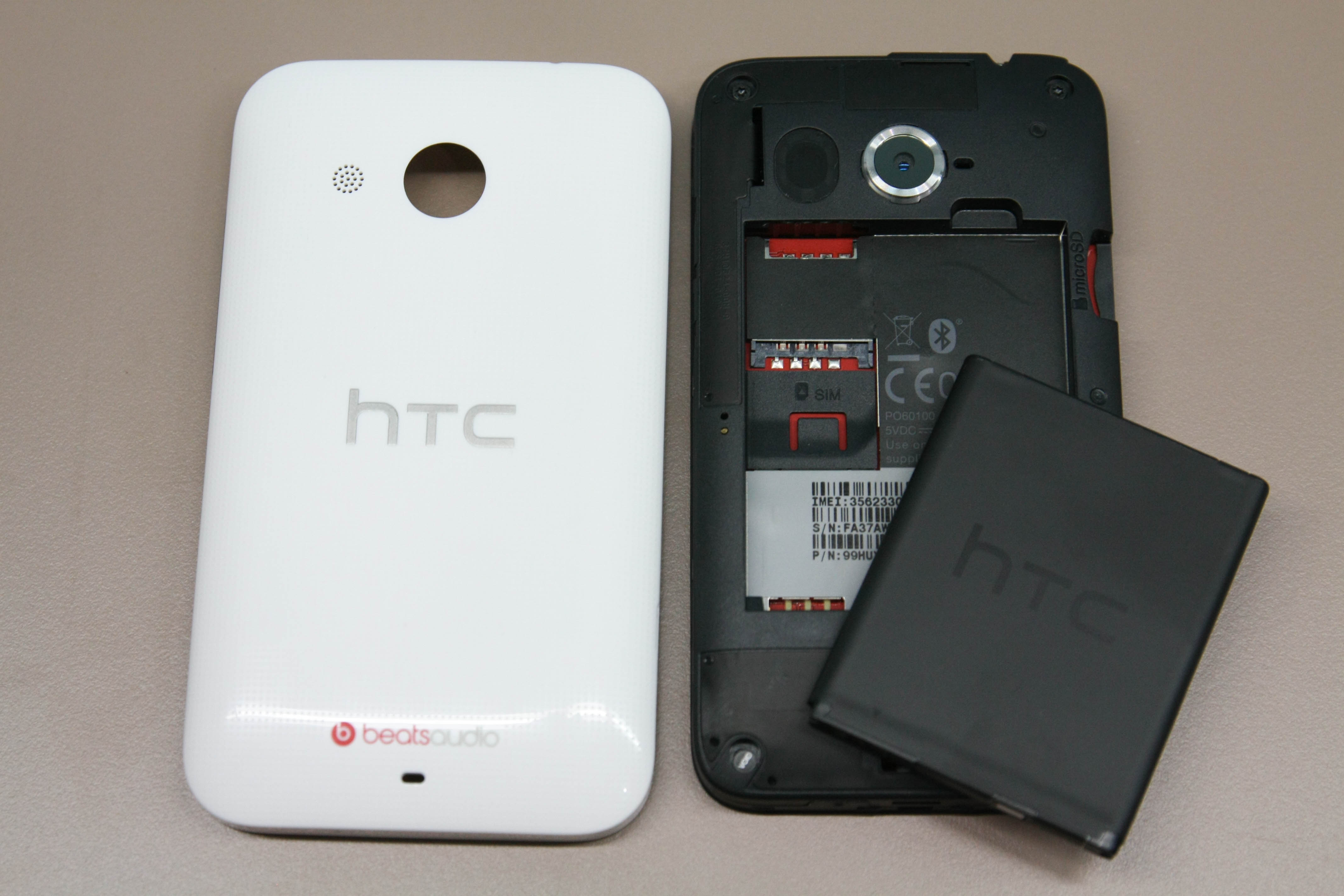 Read review at